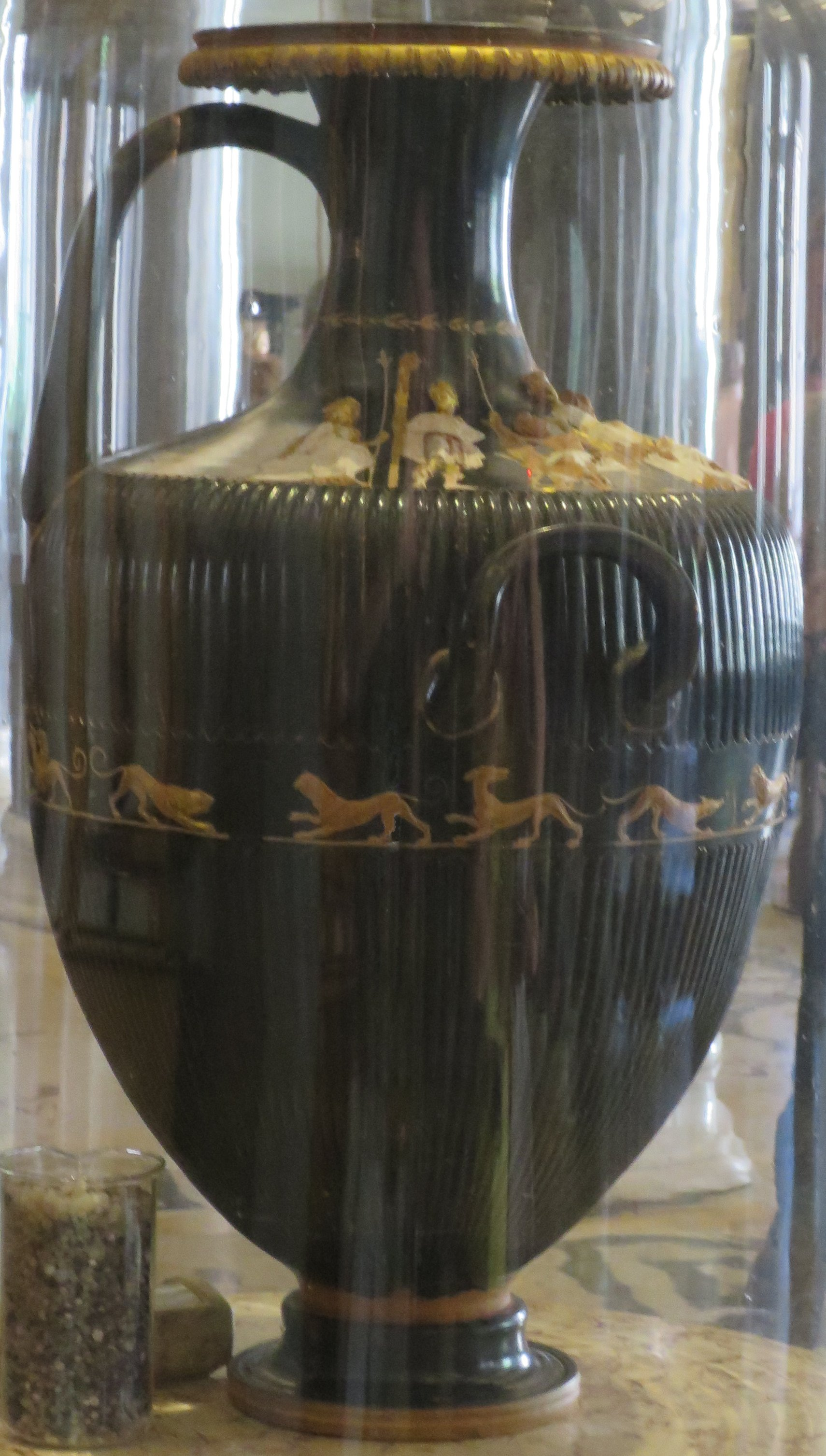 Black-glazed hydria known as the "Regina Vasorum", 4th century BCE, southern Italy, The Hermitage